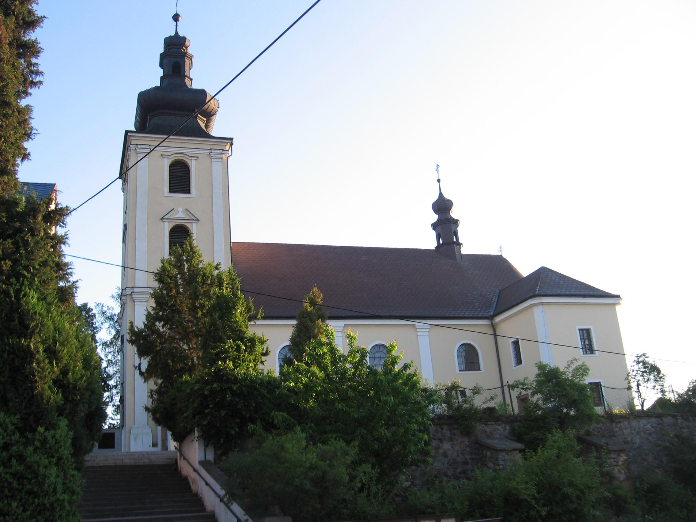 Church of St Martin in Blansko, Czech Republic.